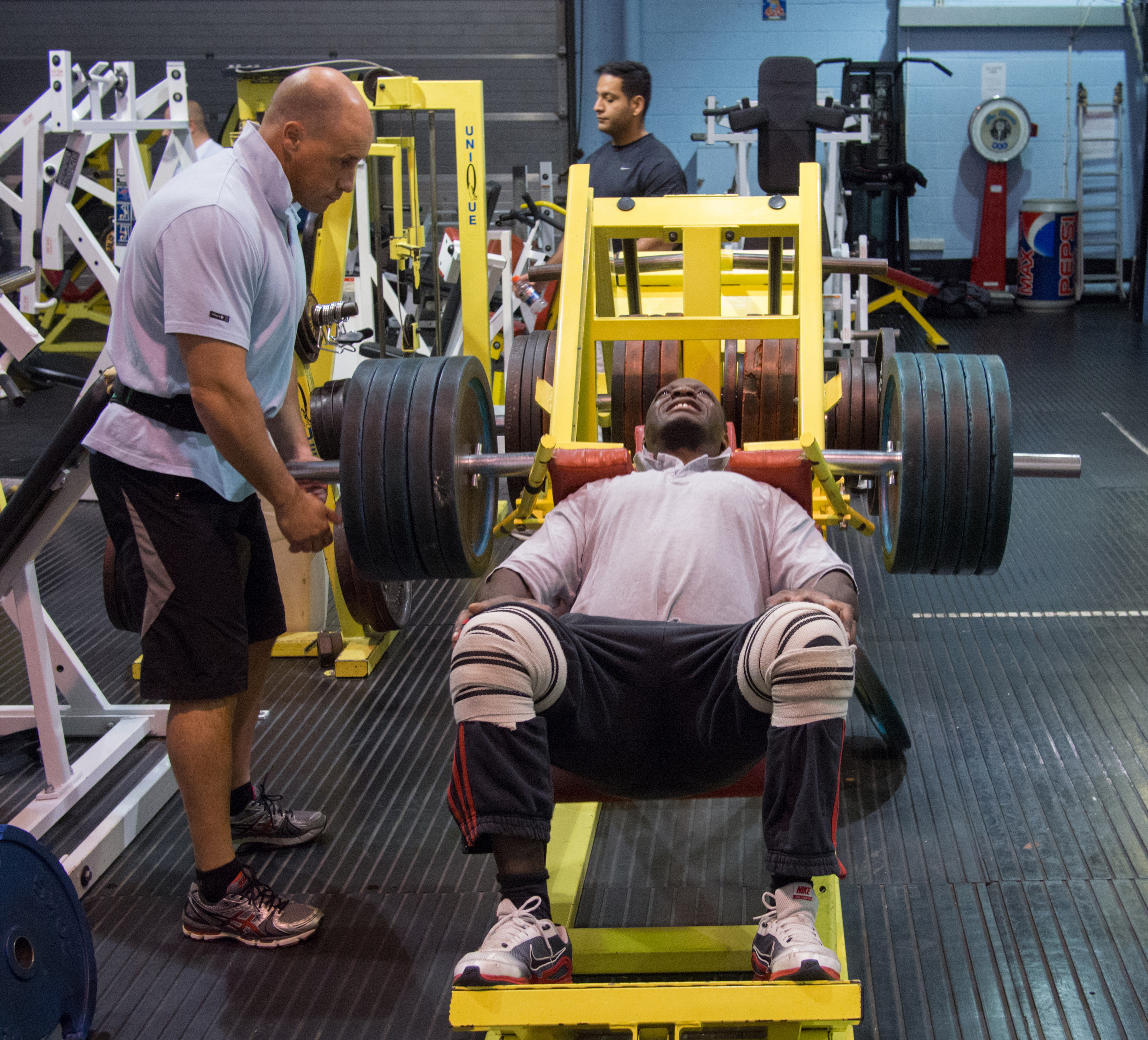 Forge Gym, Slough, 11-09-13